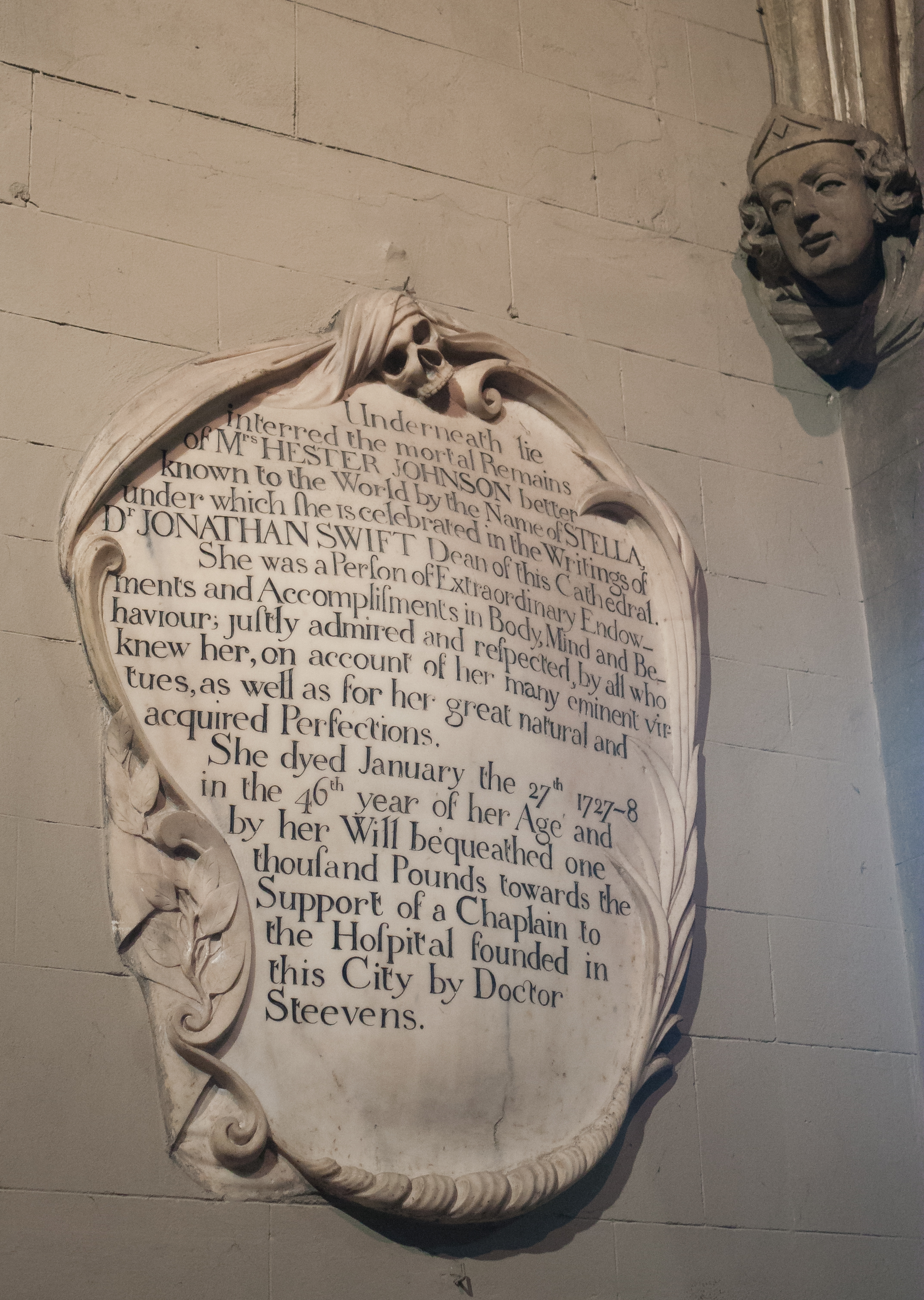 Plaque dedicated to Hester Johnson. The inscription reads: Underneath lie interred the mortal Remains of Mrs HESTER JOHNSON better known to the World by the Name of STELLA, under which she is celebrated in the Writings of Dr JONATHAN SWIFT Dean of this Cathedral. She was a Person of Extraordinary Endowments and Accomplisments in Body, Mind and Behaviour; justly admired and respected, by all who knew her, on account of her many eminent virtues, as well as for her great natural and acquired Perfections. She dyed January the 27th 1727–8 in the 46th year of her Age and by her Will bequeathed one thousand Pounds towards the Support of a Chaplain to the Hospital founded in this City by Doctor Steevens.